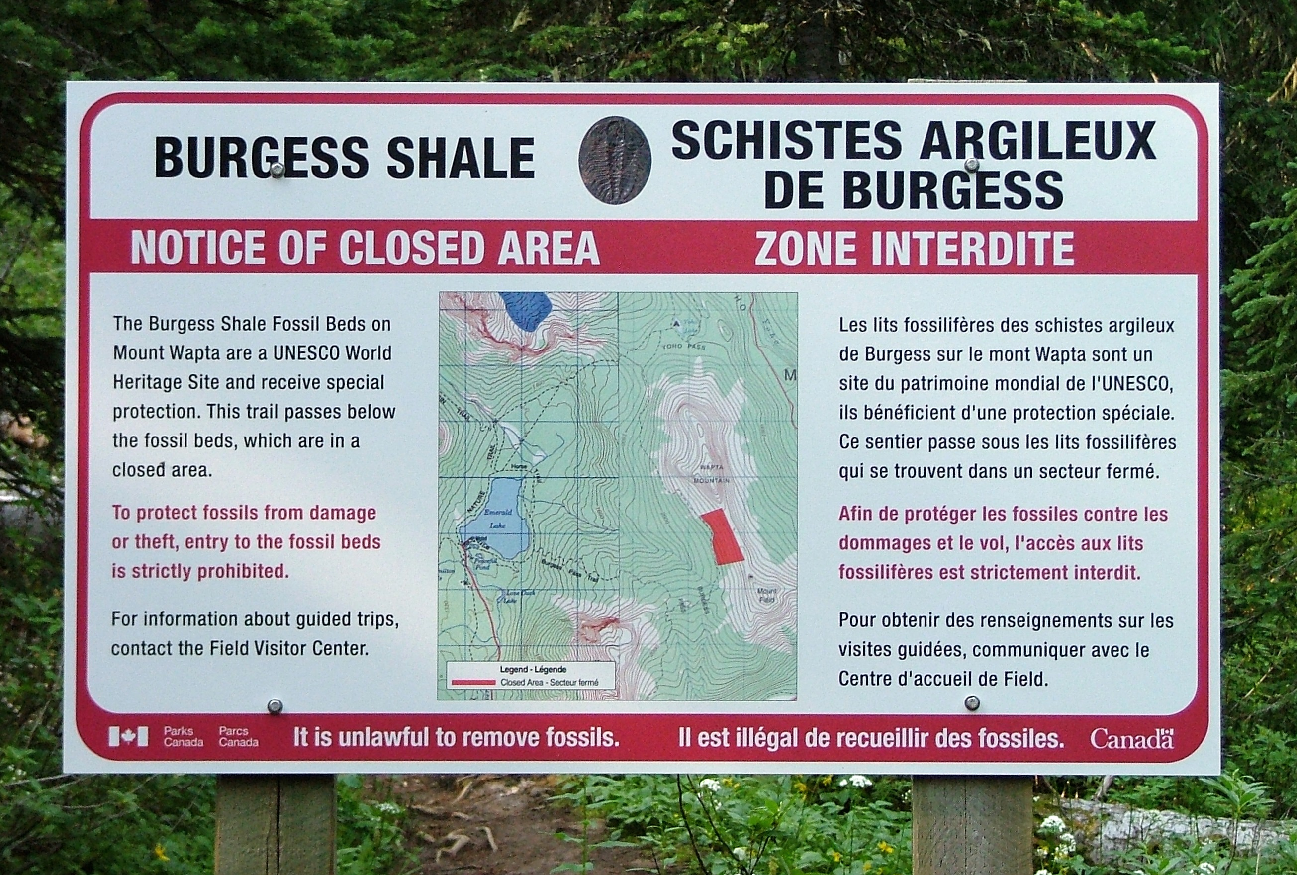 Notice detailing restrictions of access to the Fossil Ridge Burgess Shale outcrops